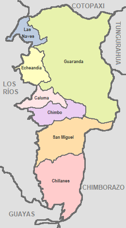 Cantons of Bolívar